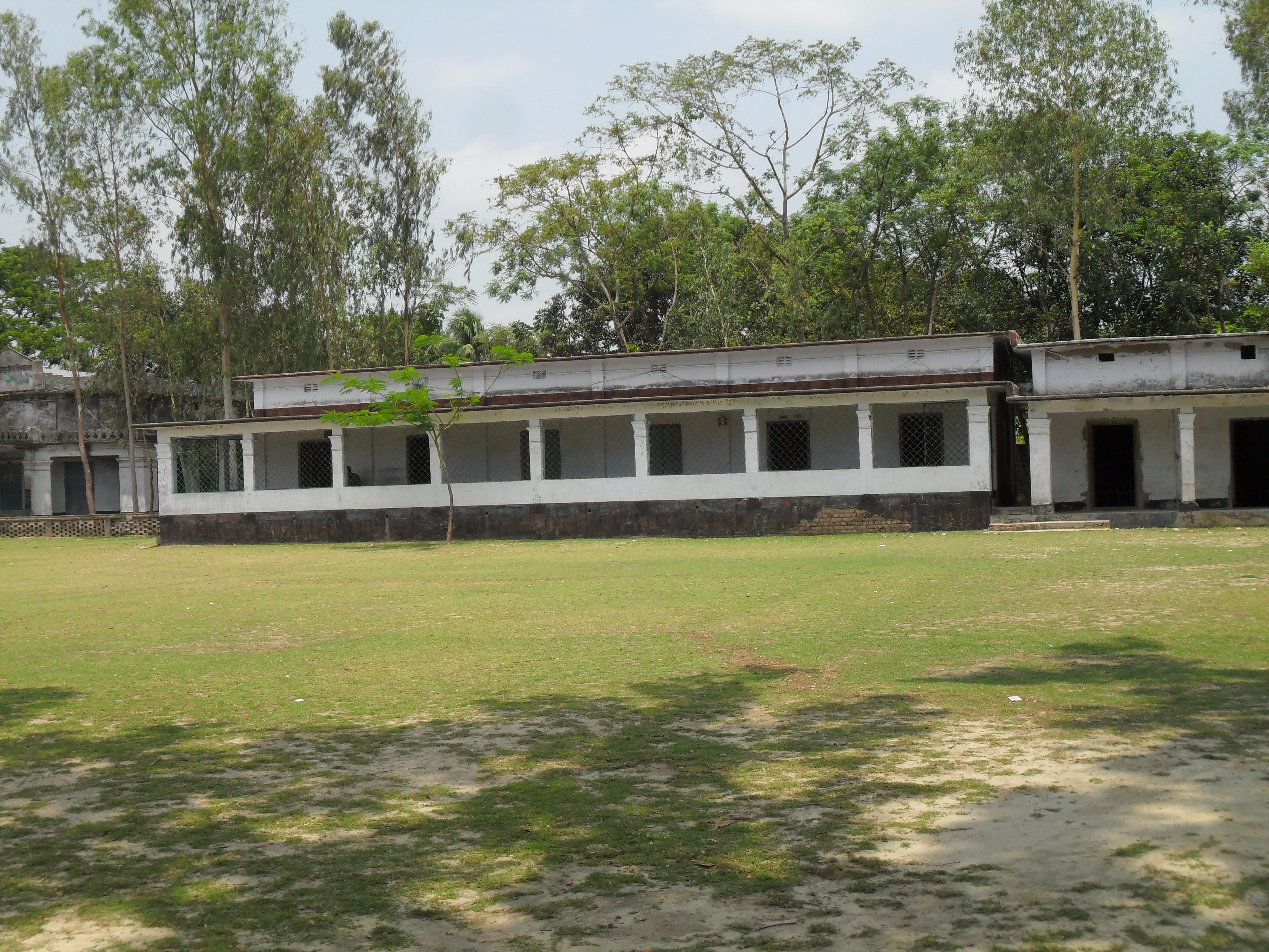 Mohamimaganj High School built in 1945 by Ahmed Hossain